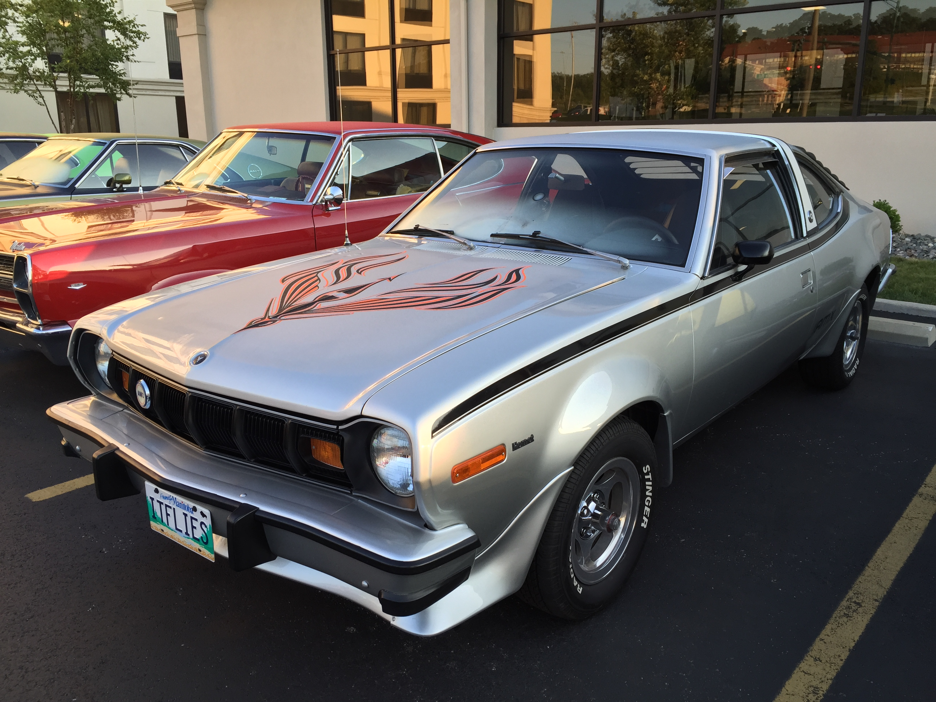 1977 AMC Hornet AMX, a sports compact built by American Motors Corporation. Originally a sports GT-type two-seater from 1968 to 1970, the AMX name was used from 1971 to 1974 on the top high-performance model of AMC's Javelin "pony car" and later returned on this Hornet plarform. The AMX was hatchback body style and included either the 258 cu. in. (4.2 L) I6 engine with 4-speed or automatic transmission, or the 304 cu. in. (5.0 L) V8 with a floor-mounted automatic, as well as the following as standard: painted bumpers with rubber guards and nerf strips, painted fender flares and front air dam, black rear window louvers, AMX graphics on lower bodyside and rear deck, dual outside mirrors in flat back (left side remote controlled), blacked out window frames, grille, and rear panel, a silver "targa" roof band, styled road wheels with trim rings and DR78 tires, unique black bodyside scuff moldings, brushed silver instrument panel overlays, tachometer, gauge package, front center console and bucket seats, custom door panels with door pulls, and soft-feel steering wheel. This car is finished in Silver Frost metallic (paint code 6J) and the optional large Hornet AMX hood decal. This car has a custom upper body side stripe ending at the quarter window. The center gauge panel was included on AMXs, but this car's under dash audio system is aftermarket accessory. Photograph taken during the American Motors Owners Association (AMO) annual convention that was held July 2015 near Cleveland, Ohio.